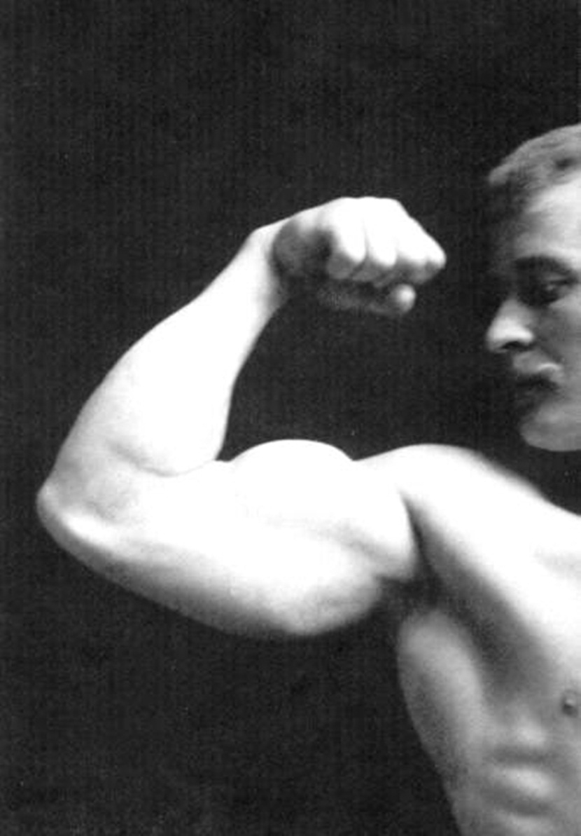 Portrait of strongman Eugen Sandow (1867-1925) in 1896.